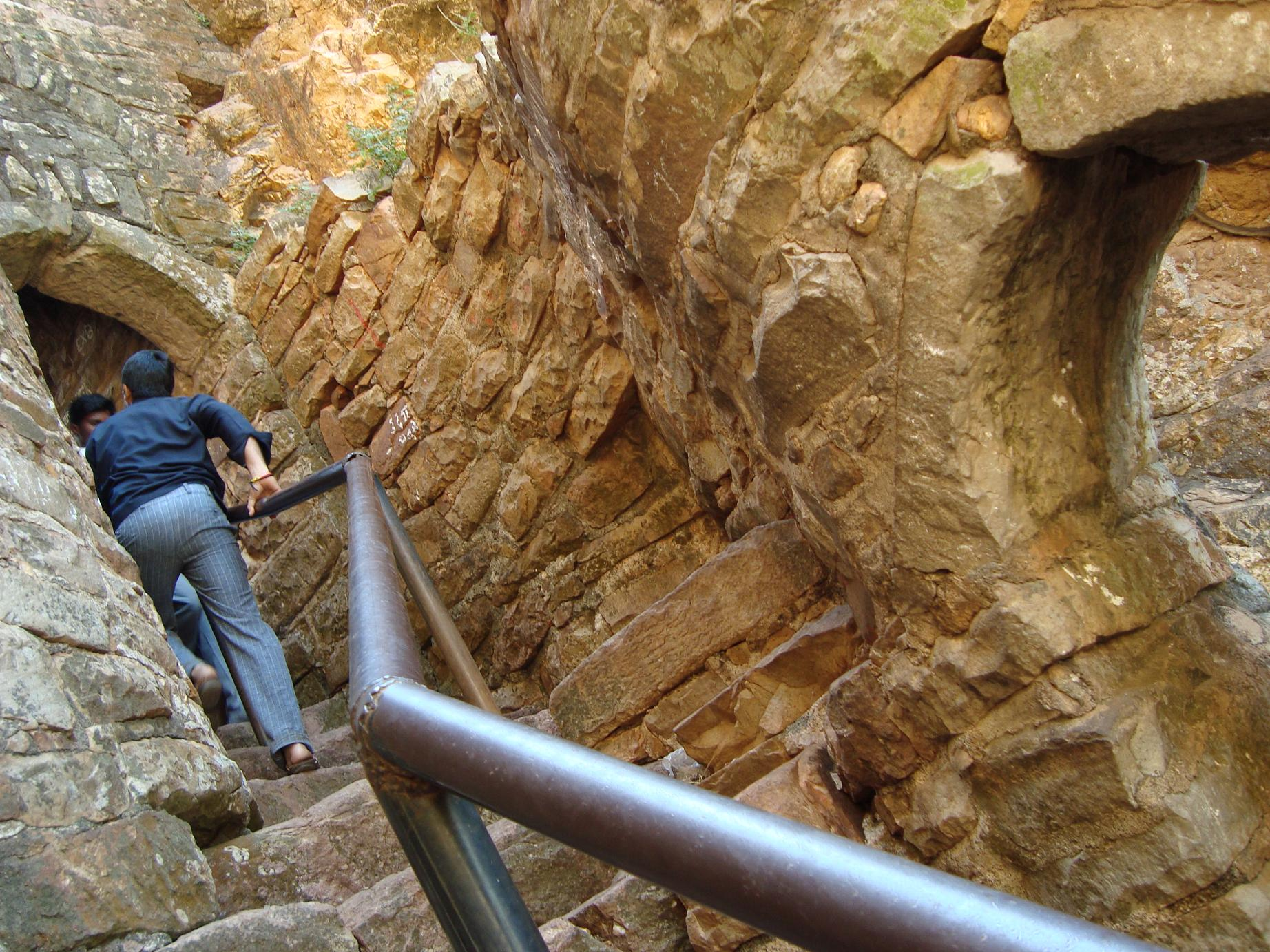 Parasgad Fort, near Savadatti Source and Author : Manjunath Doddamani, Gajendragad / Hubli, Karnataka(India)